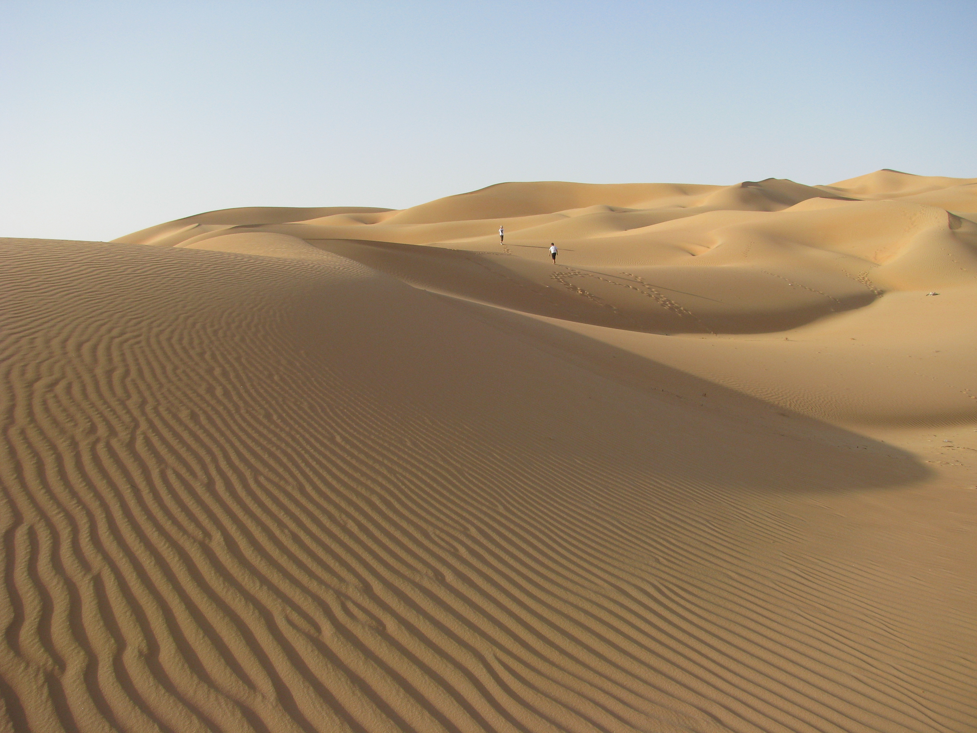 It almost seems a shame to spoil these by walking across them